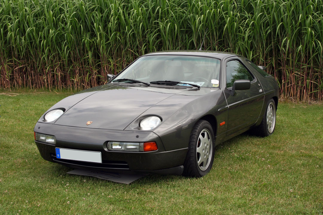 Porsche 928 S4 at Classic Days Schloss Dyck 2012. View: front left